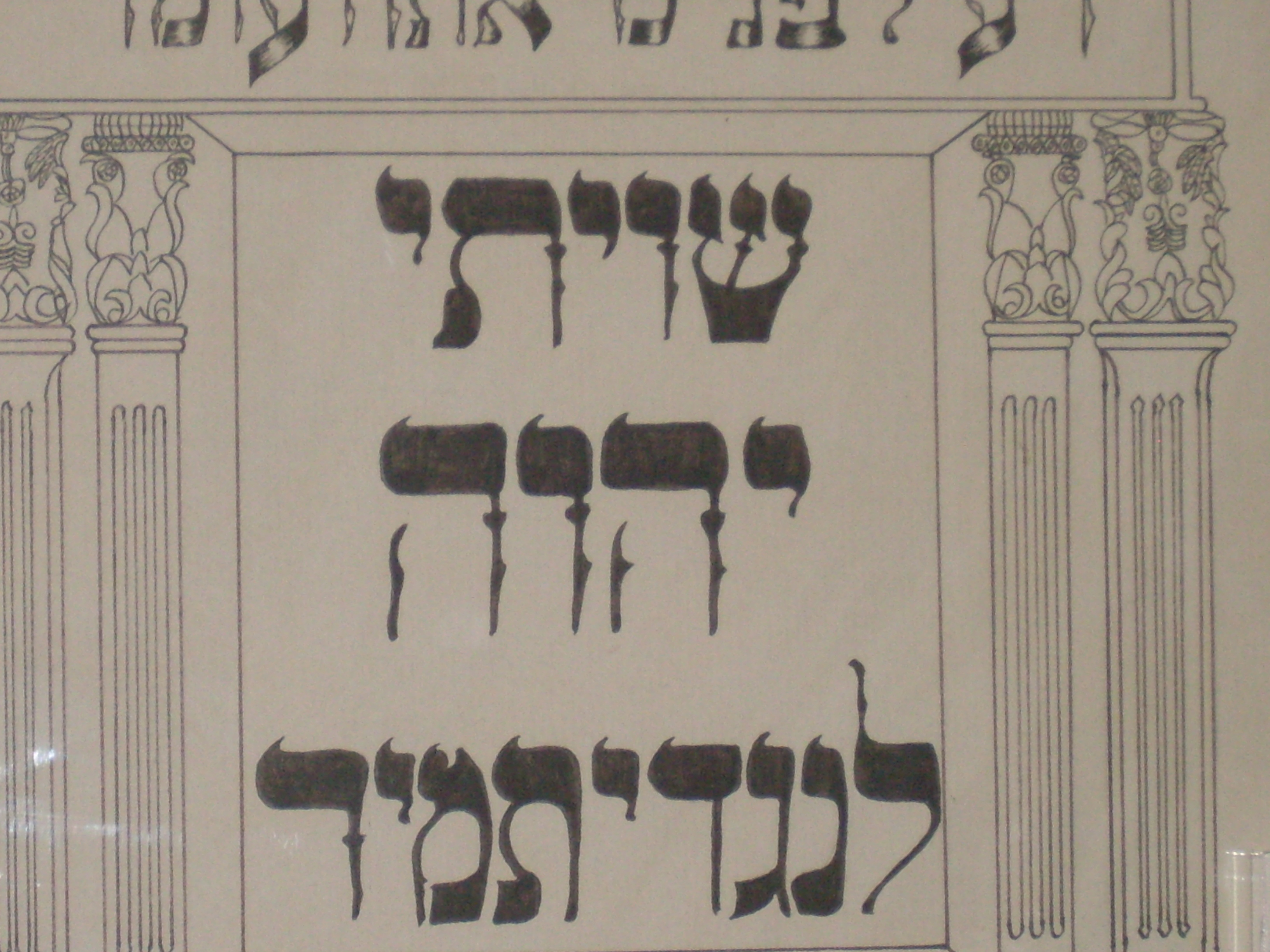 Tetragrammaton JHWH, Old Synagogue Kraków, Poland